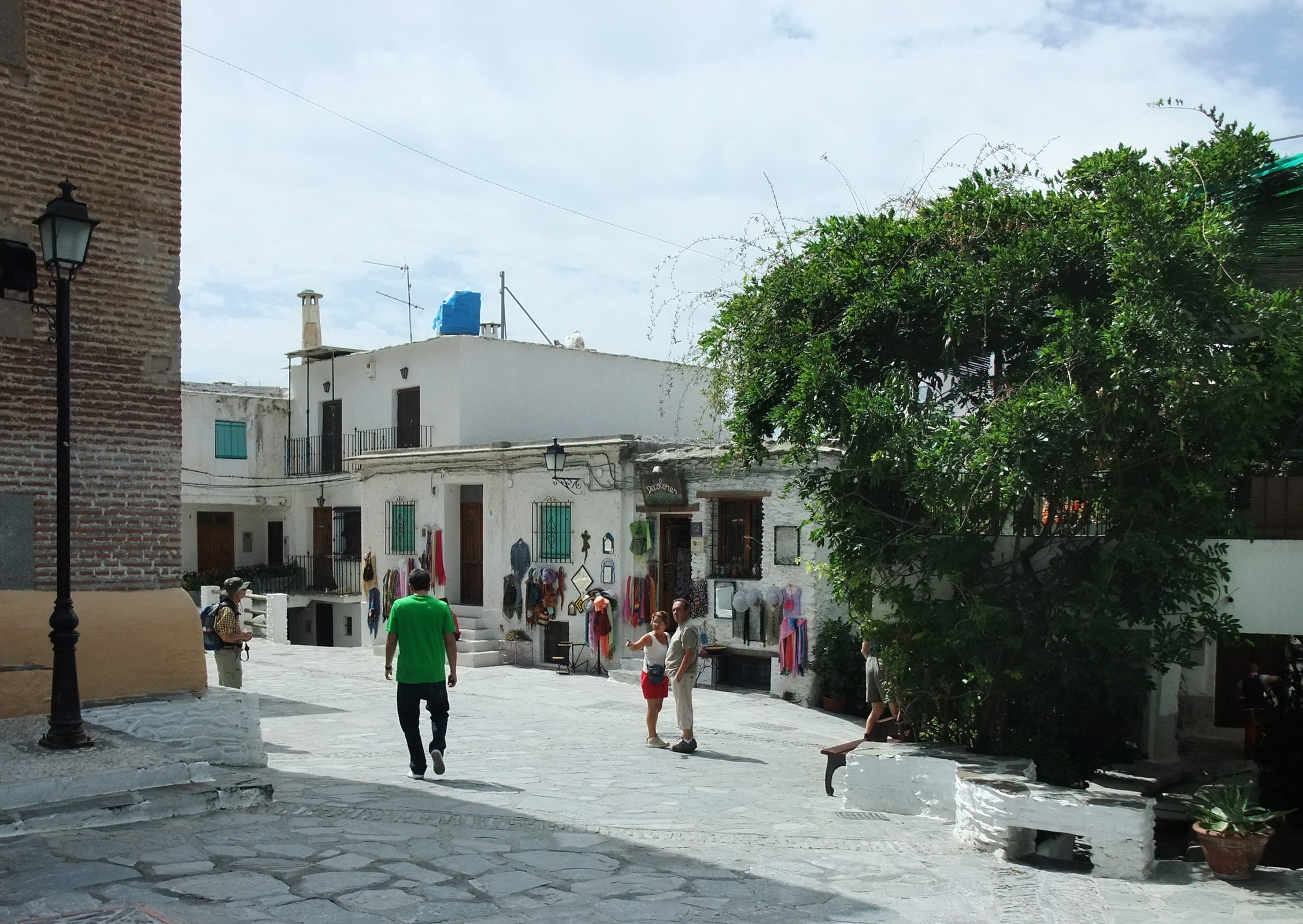 Street in Pampaneira, Province Granada in Spain